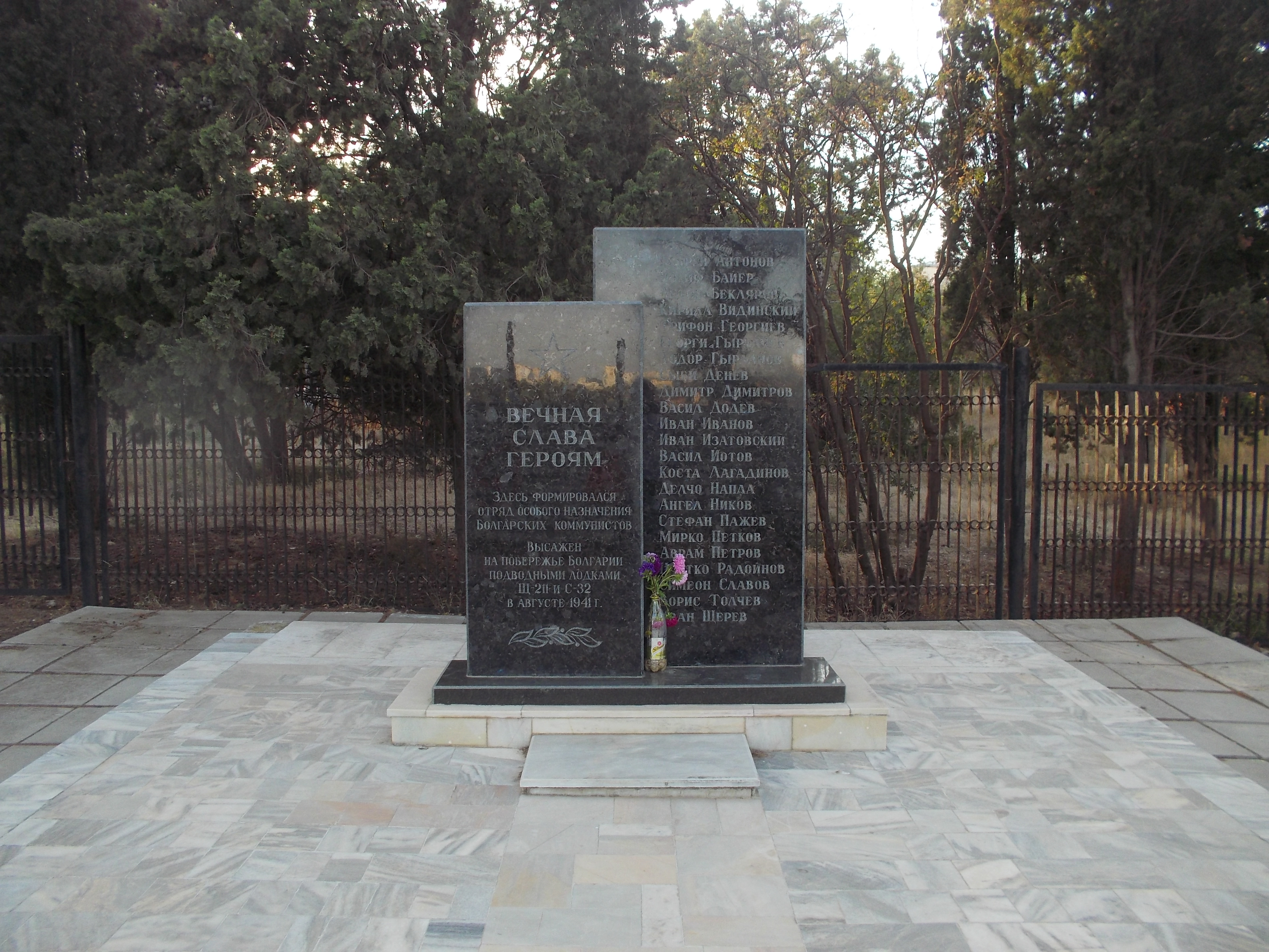 The monument of Bulgarian Communists, Kruglaja Bichta (Ring Harbor), Sevastopol